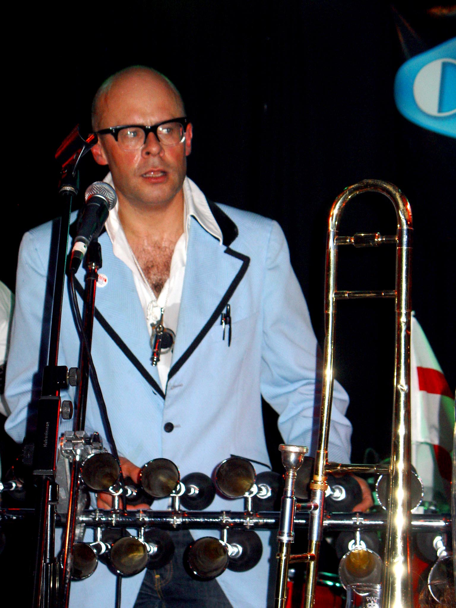 Harry Hill in Putney with The Caterers in 2006.